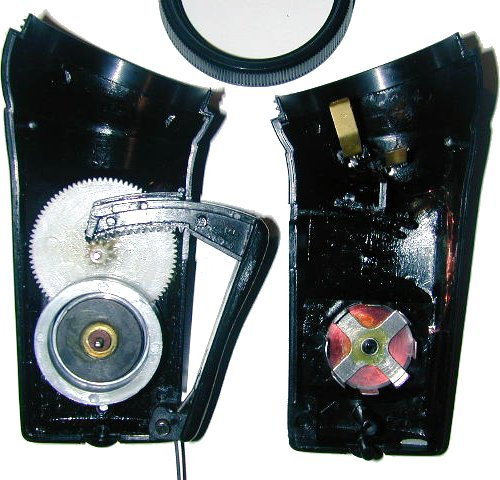 A dyno torch, a hand powered electric torch, disassembled to show mechanism. Squeezing the handle (left) spins the flywheel through the plastic rack and pinion gear. The flywheel has a ring-shaped magnet on it which, combined with the coil of wire (right), makes a brushless AC generator. The magnetic field of the spinning magnet induces electric current in the coil of wire, which powers the light bulb. The torch only generates light when it is pumped, so it doesn't need an ON/OFF switch. Modified by Midnightcomm to correct white balance and be cropped.